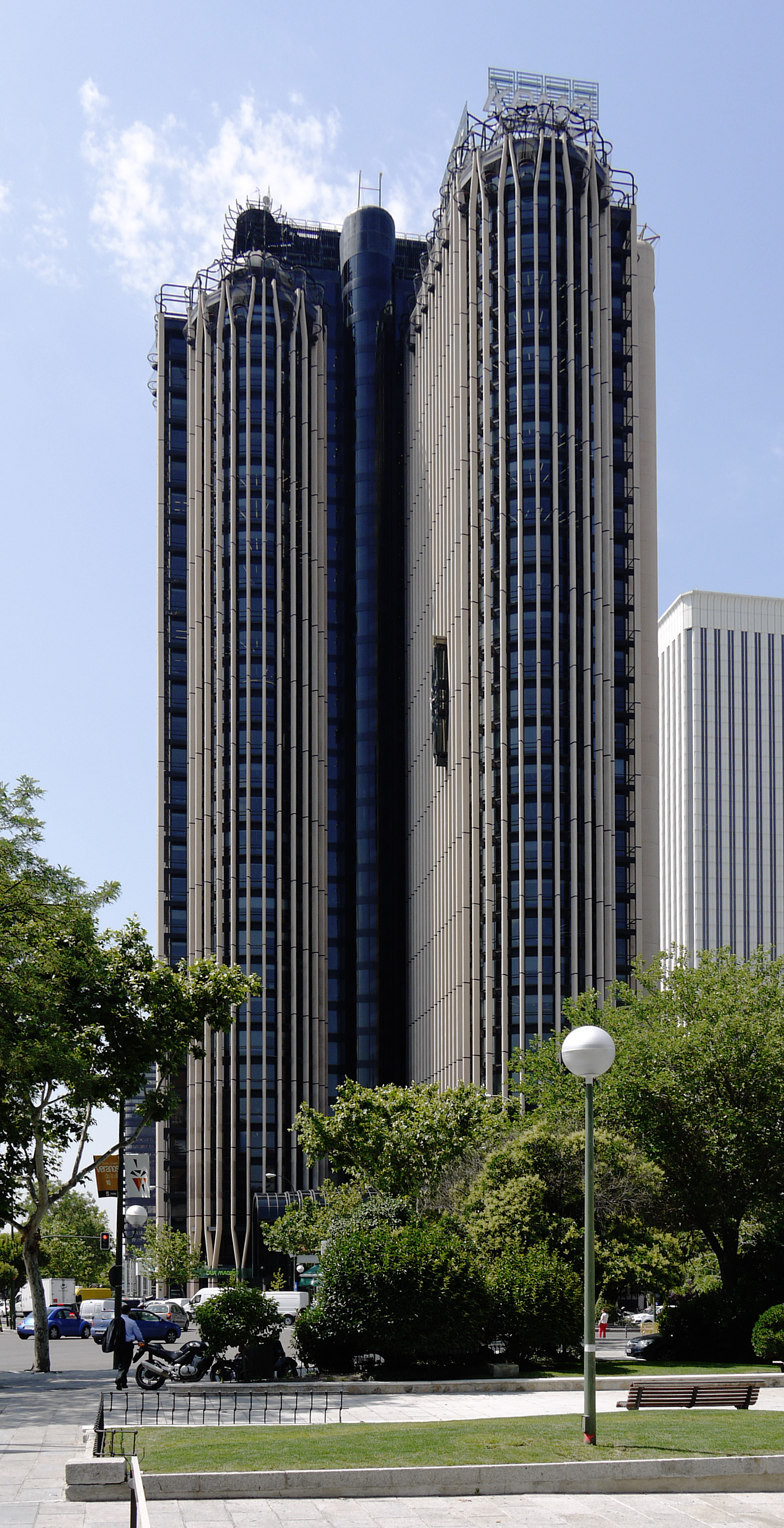 Torre Europa (Madrid, Spain, 1985). Architect: Miguel Oriol e Ybarra. View from Paseo de la Castellana (avenue).